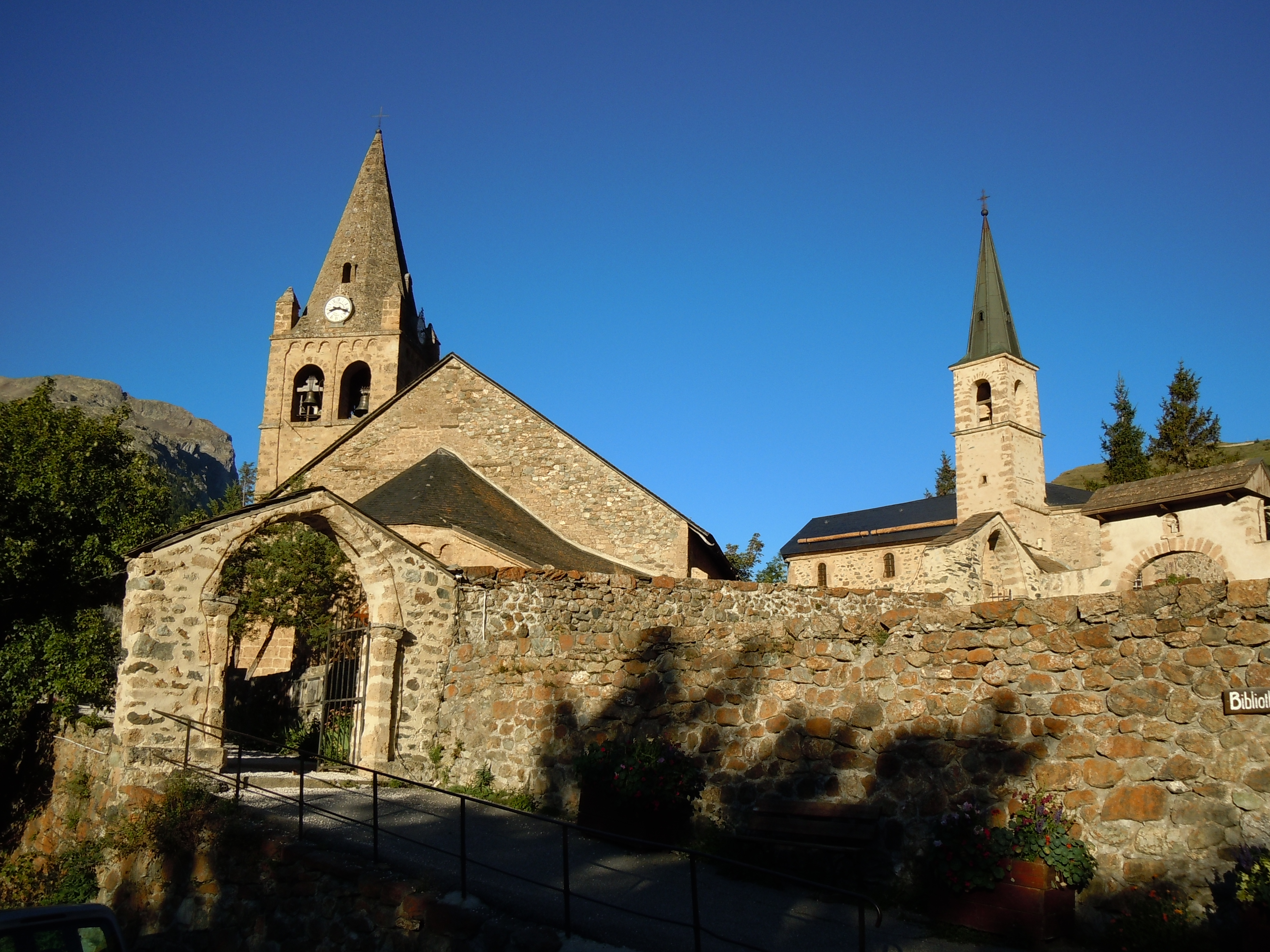 Church, chapel and cemetery in La Grave (Hautes-Alpes, France)